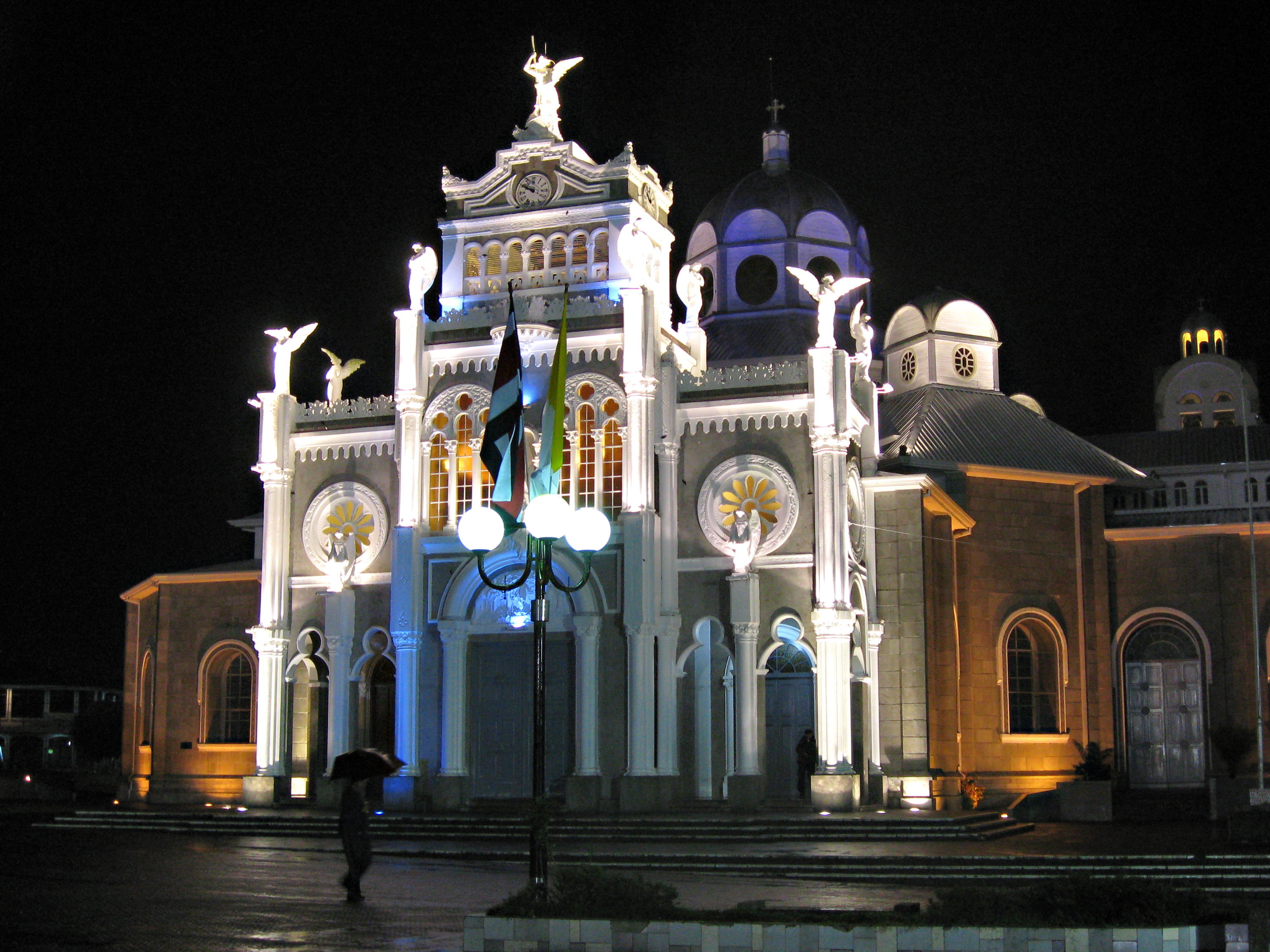 Nuestra Señora de los Angeles Basilica in Cartago, Costa Rica